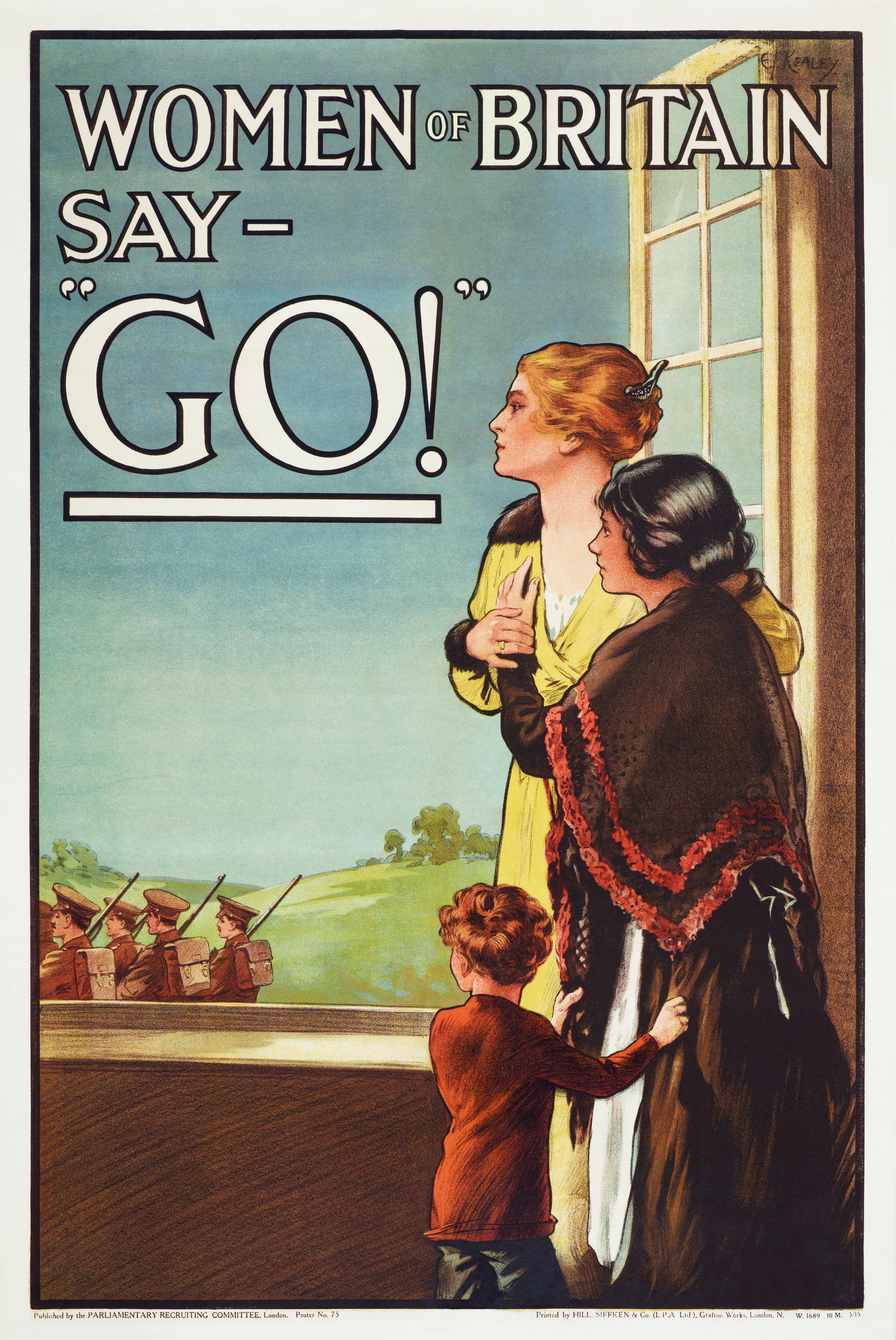 Poster, ’Women of Britain say - "Go!" ’, May 1915, United Kingdom, by Parliamentary Recruiting Committee, Hill, Siffken & Co. (L.P.A. Ltd.), E J Kealey. Gift of Department of Defence, 1919. Te Papa (GH016292) Restored by Adam Cuerden. Notes: Cleanup of scratches, stains, and a few minor printing blobs; fixed minor distortion from true rectangle (~10 px or so) likely from paper not being flat; levels adjusted, paper border selectively lightened slightly.